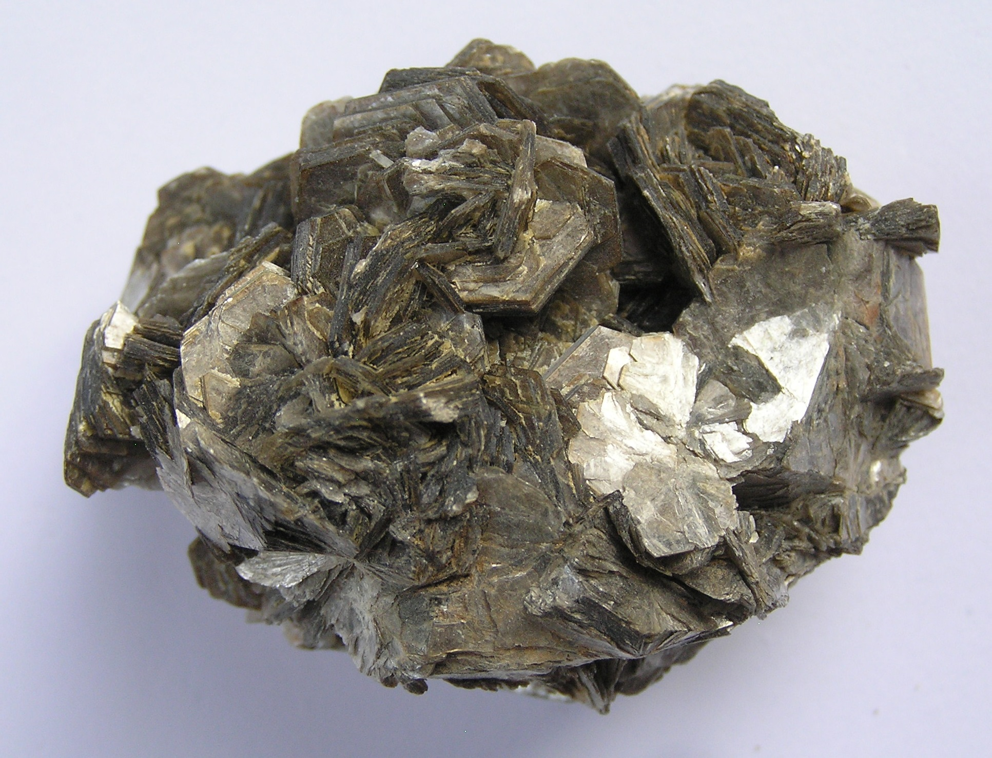 Zinnwaldit